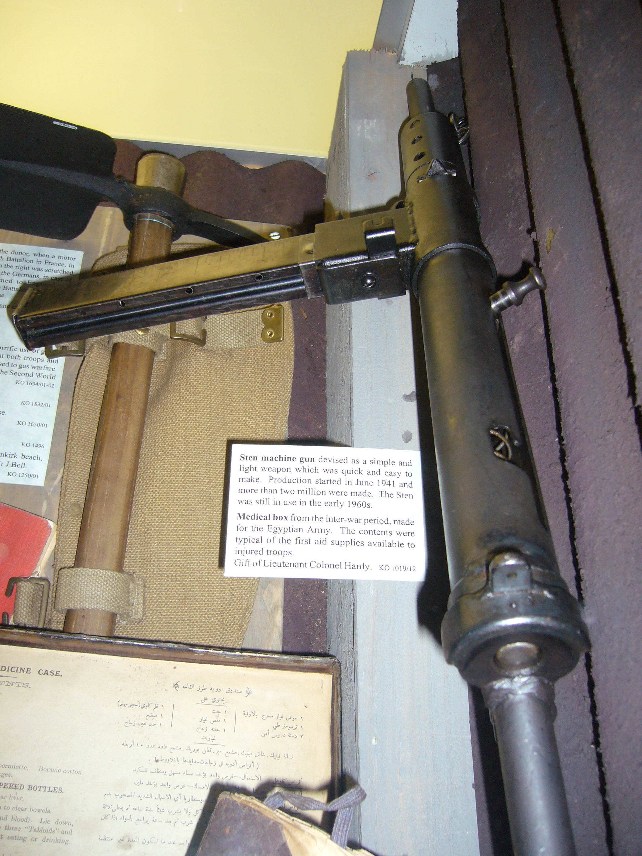 Sten Mk II (dorsal view with loop stock partially visible). Note that the weapon is not cocked.